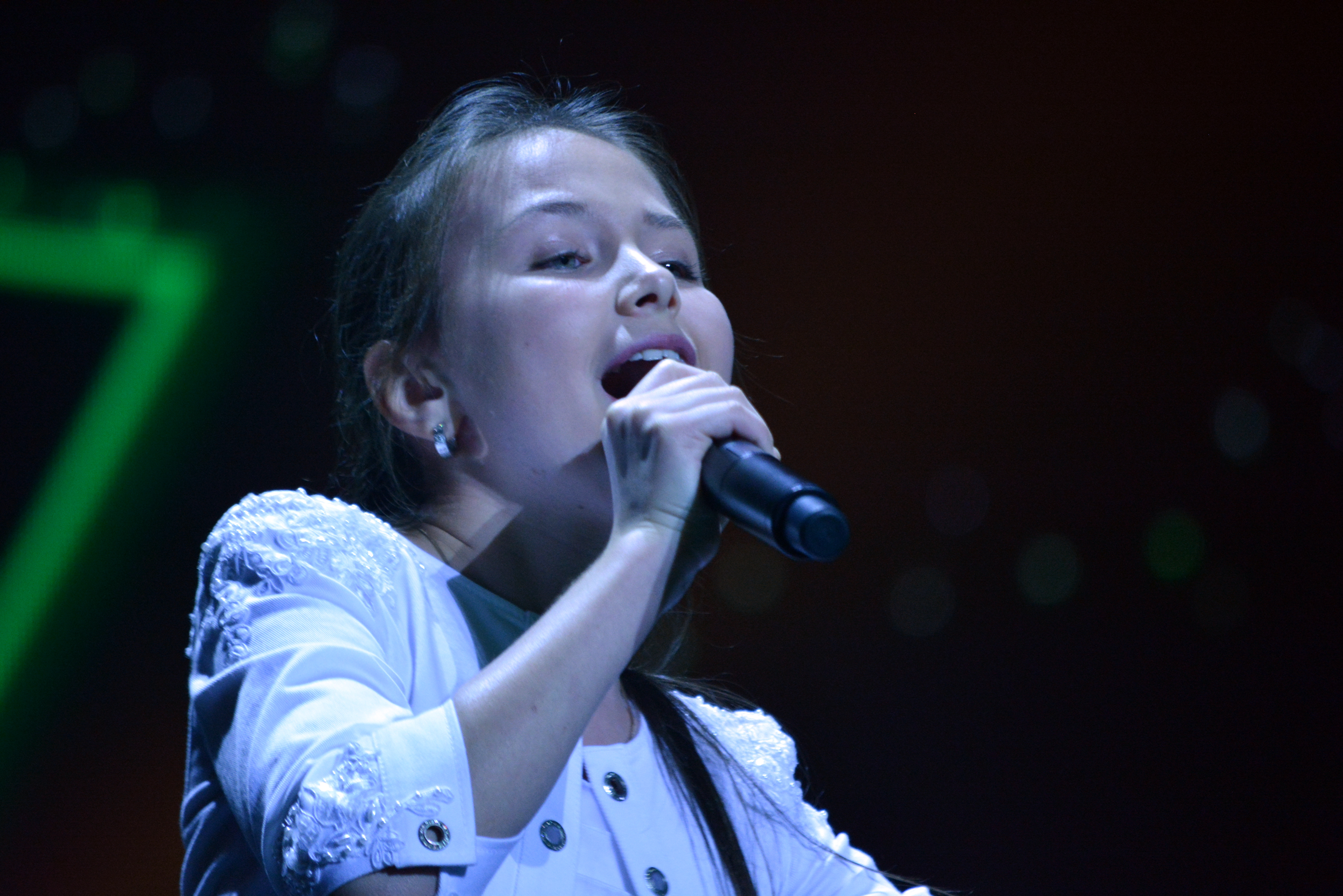 JESC 2013 (Ukraine) Sofia Tarasova at rehearsal